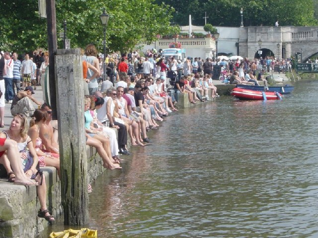 Richmond Bridge in August. The population cooling down. This was taken while looking for clues to the site of the old Richmond Palace which was close to this spot.